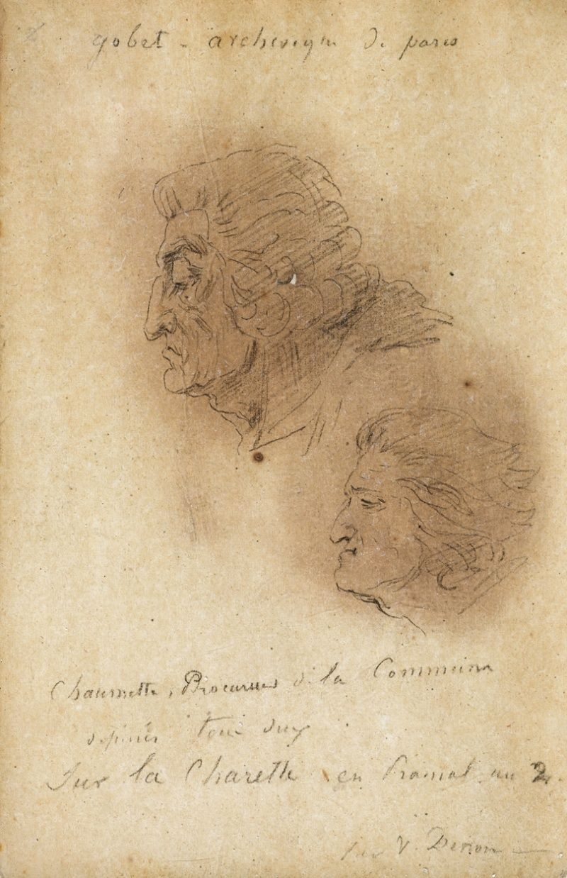 Portraits of Jean-Baptiste-Joseph Gobel (1727-1794), Bishop of Paris in 1792-93, and Pierre-Gaspard Chaumette (1763-1794), Procurator of the Commune in 1792, sketched on the way to the guillotine, April 12, 1794.